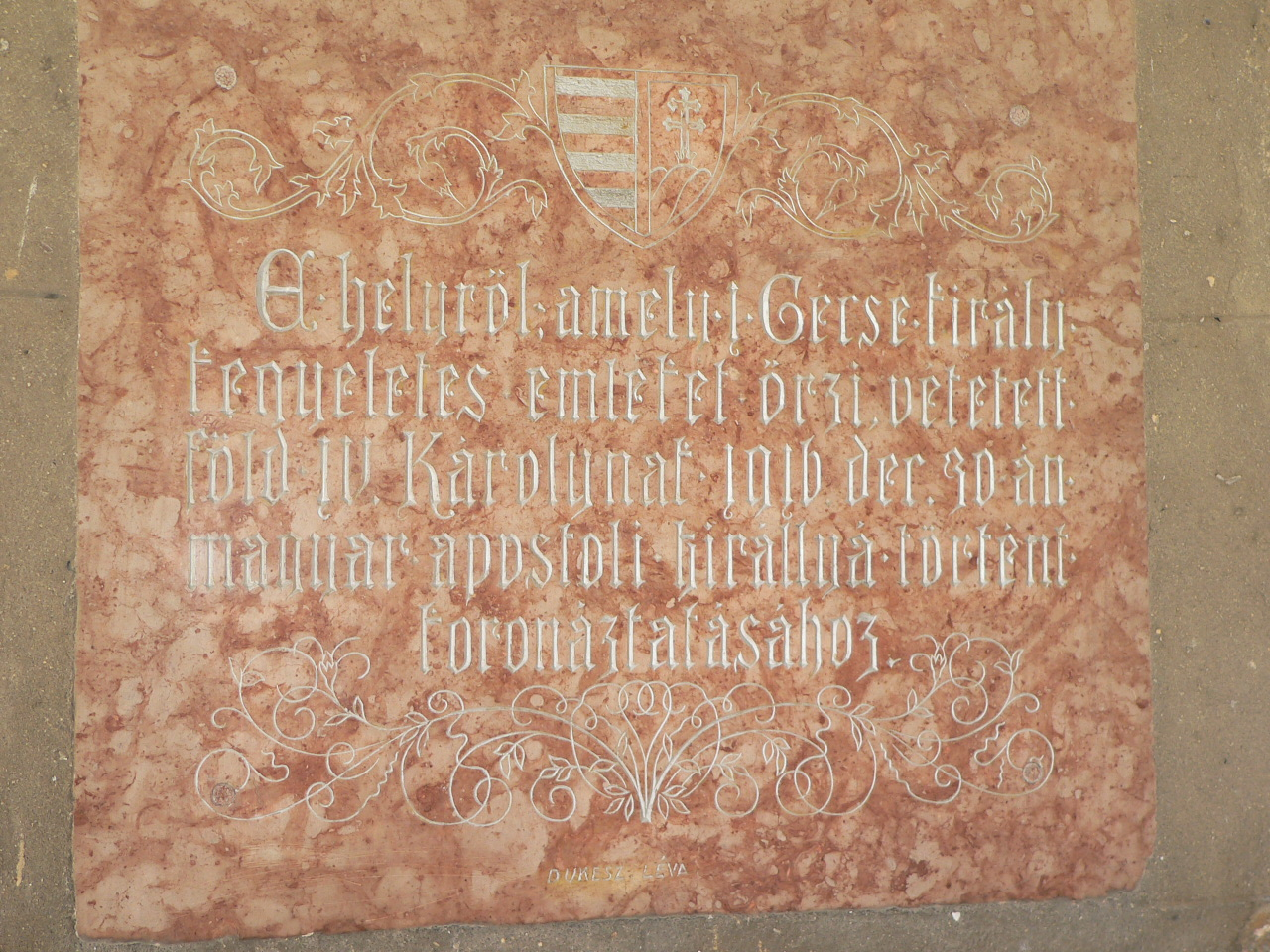 Memorial plaque of coronation of Charles IV of Hungary in Hronský Beňadik Slovakia